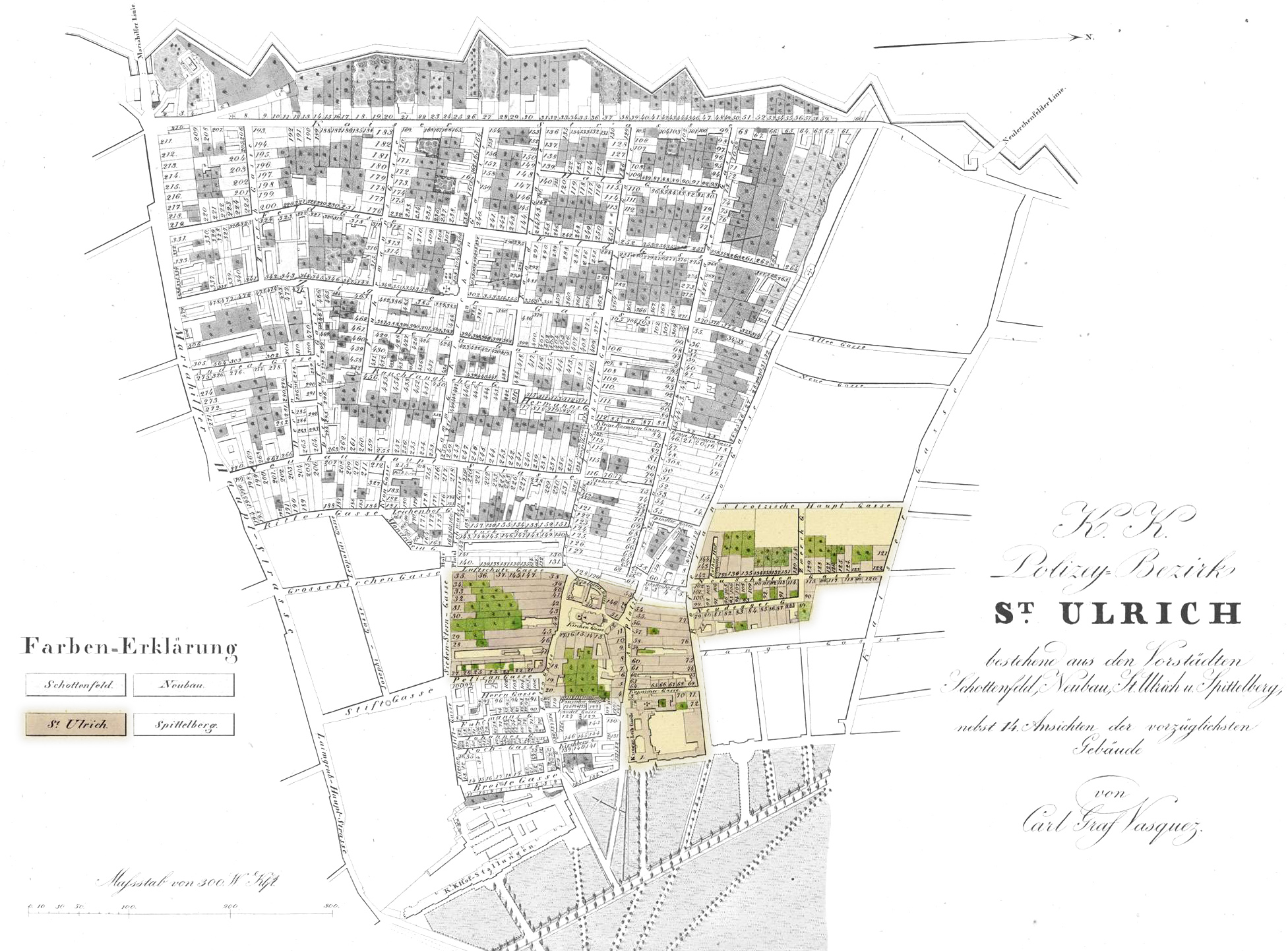 Map of Vienna / Sankt Ulrich, approx. 1830